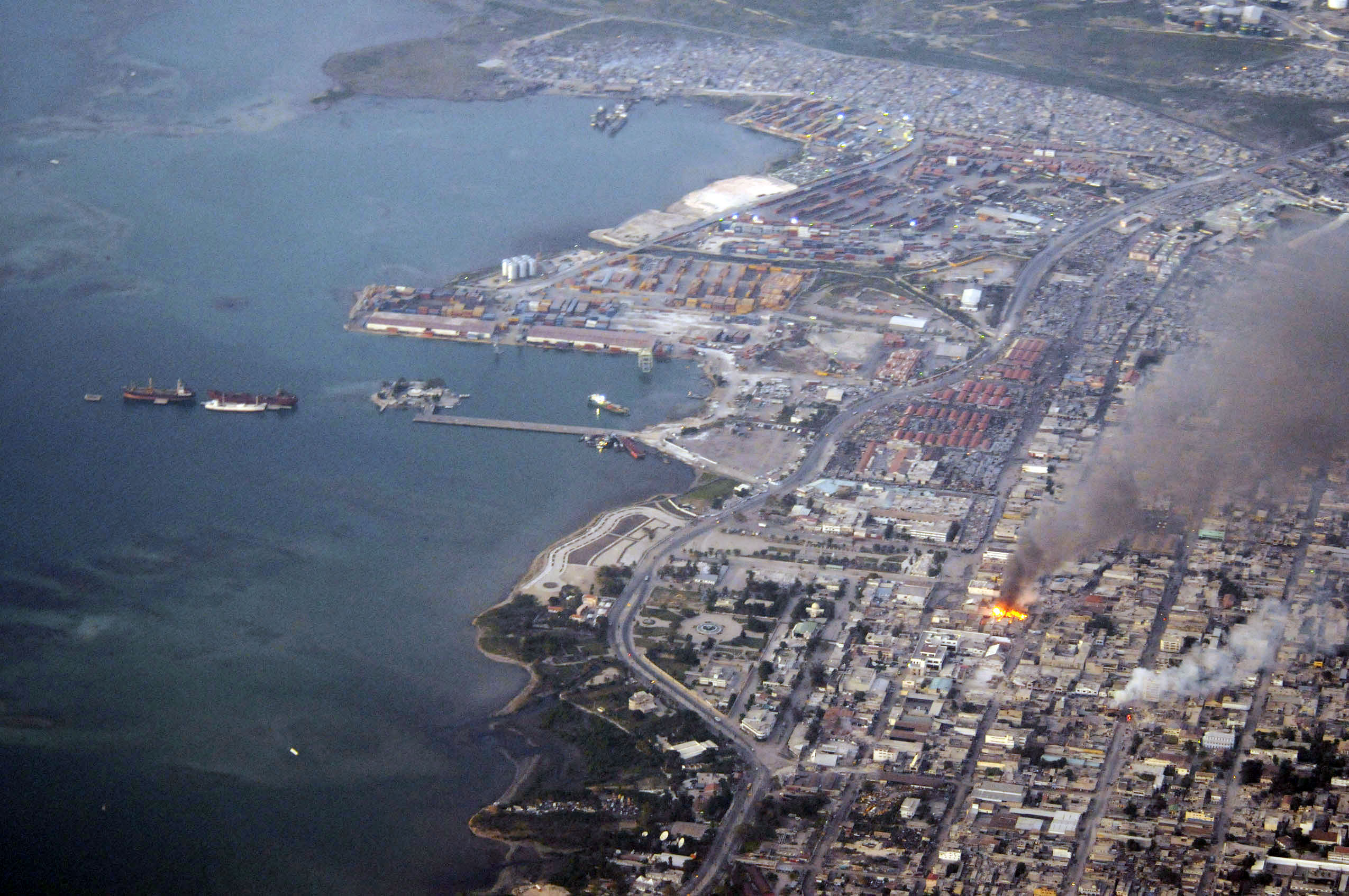 Smoke from a fire is seen near Port-au-Prince, Haiti from a U.S. Navy P-3C Orion aircraft during an aerial survey. Units from all branches of the U.S. military are conducting humanitarian and disaster relief operations as part of Operation Unified Response after a 7.0 magnitude earthquake caused severe damage in Haiti Jan. 12.